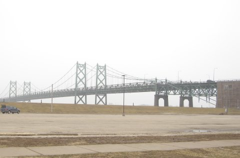 The I-74 Bridge in the Quad Cities of Illinois and Iowa. I took this photo in March of 2006. Jesster79 04:57, 10 March 2006 (UTC)